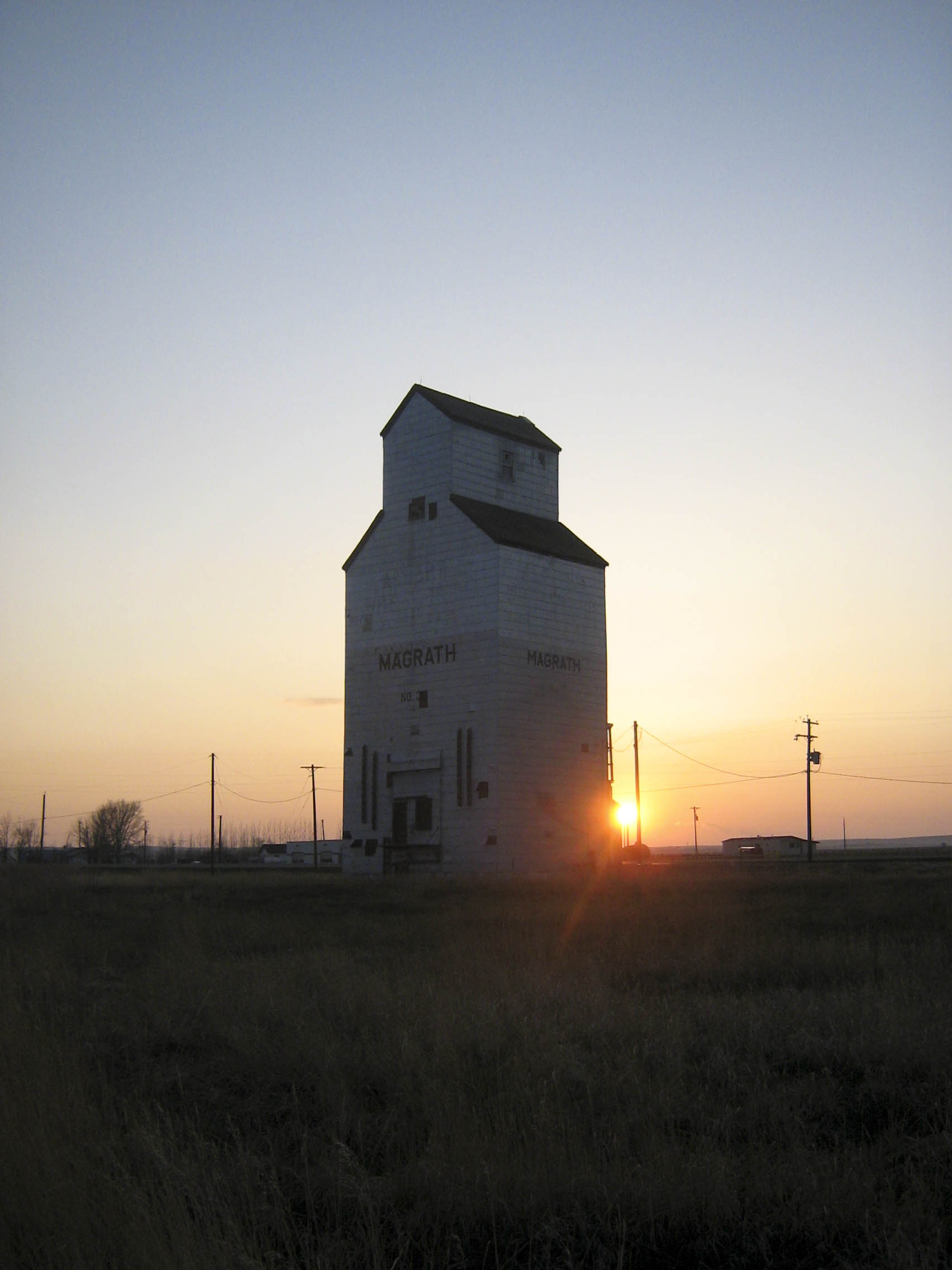 Grain elevator at dust in Magrath, Alberta.